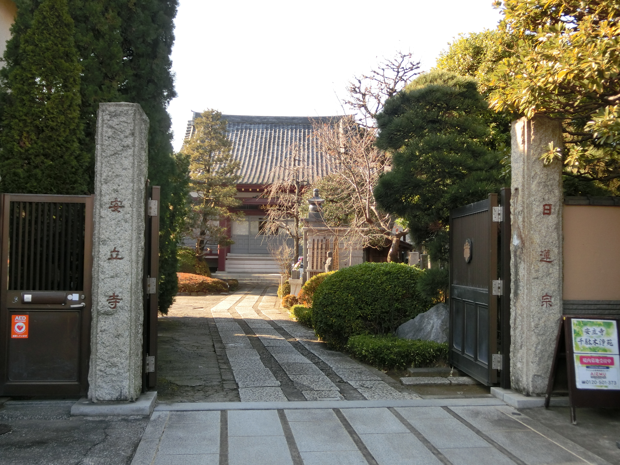 Anryu-ji (Taito)